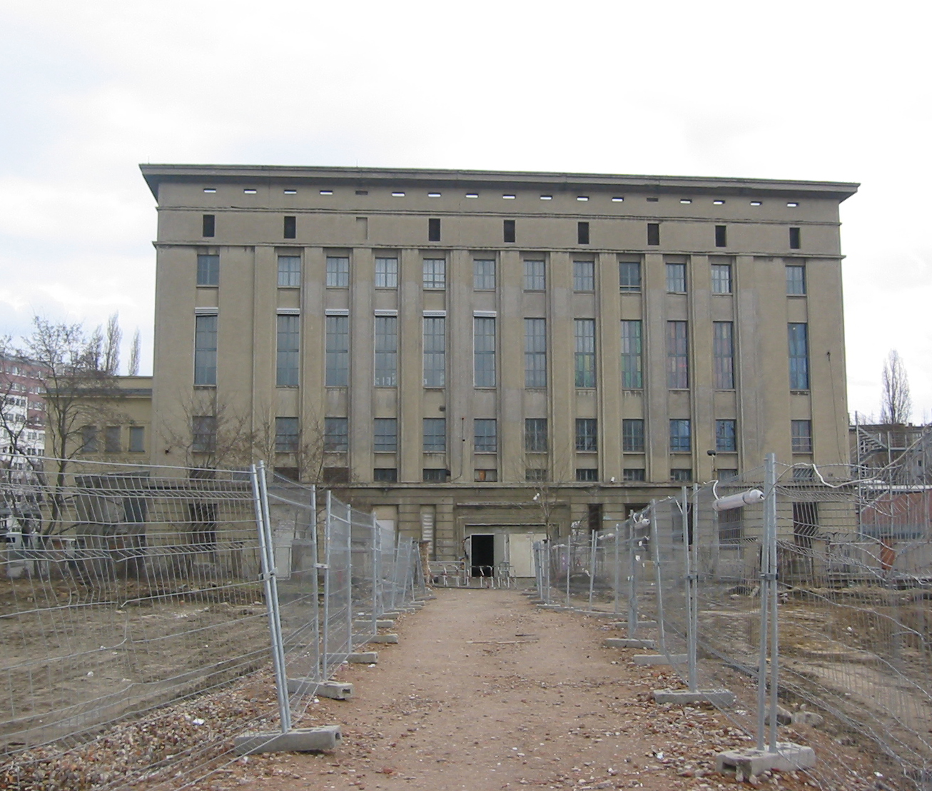 The nightclub Berghain in the surroundings of Berlin East Station in Friedrichshain.